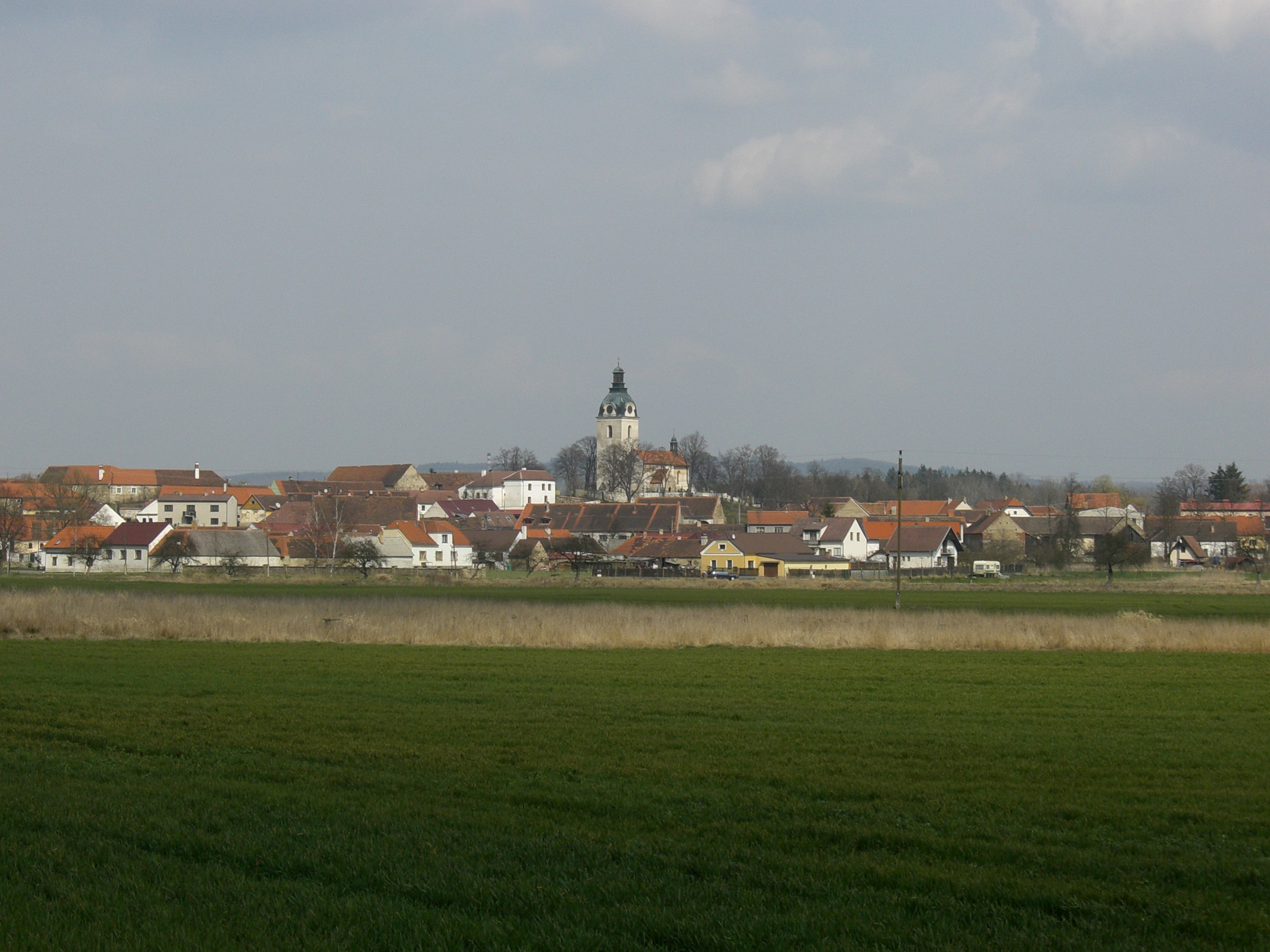 Putim village in Písek district, Czech Republic. Panorama from Ražice village.